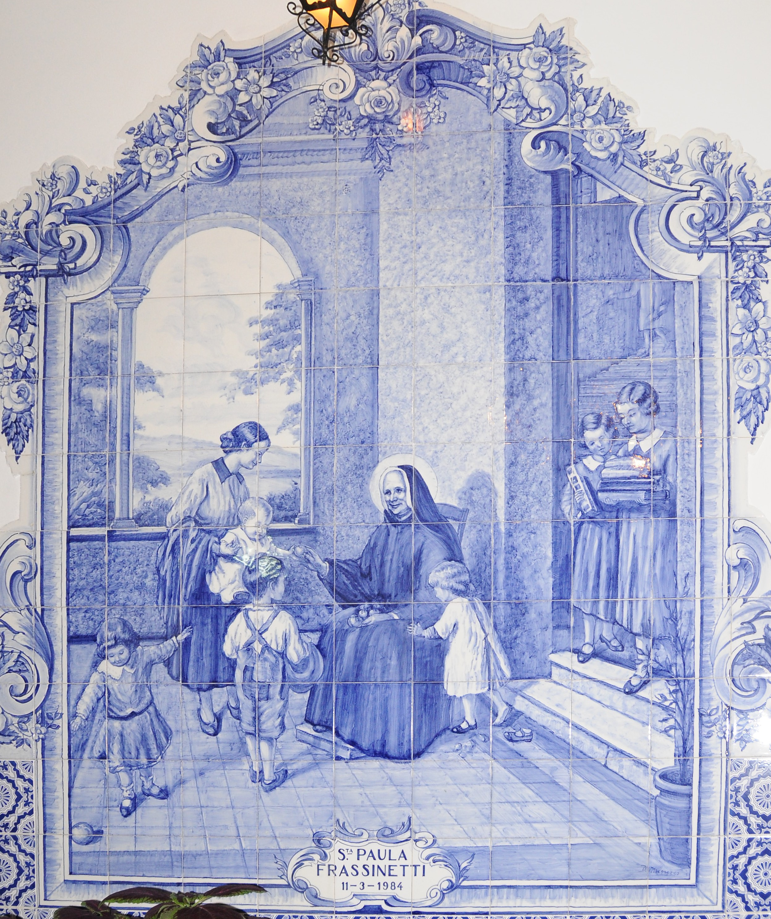 Azulejos with Paola Frassinetti in Vila do Conde, Portugal.